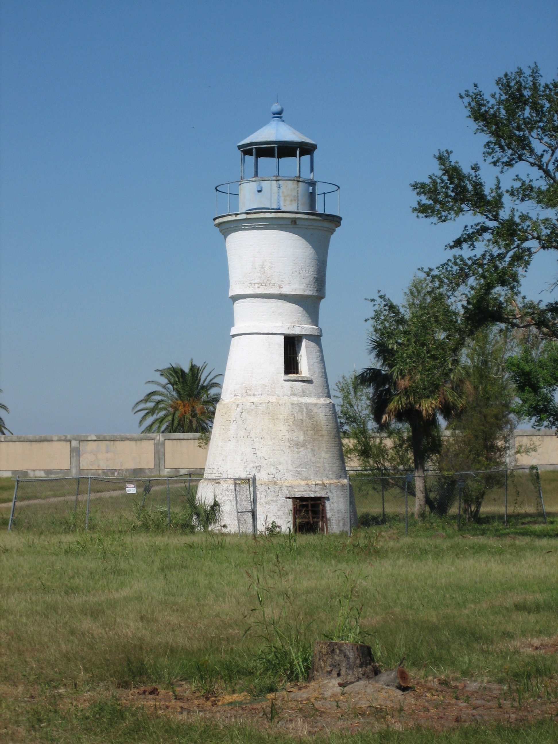 Old Milneburg lighthouse, New Orleans. 19th century lighthouse formerly at end of pier in Lake Pontchartrain, for decades in Pontchartrain Beach amusement park, and now on land of the University of New Orleans.